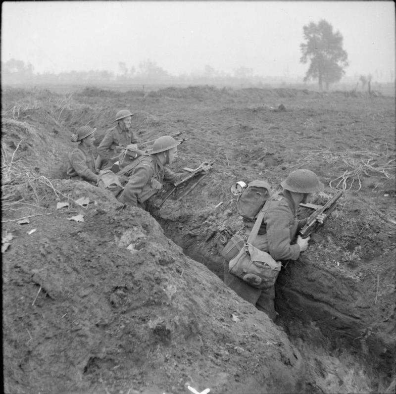 The British Army in North-west Europe 1944-45 Infantrymen of the 1/5th Queens Regiment occupy a captured German trench at Laar during the drive on Hertogenbosch, 24 October 1944.